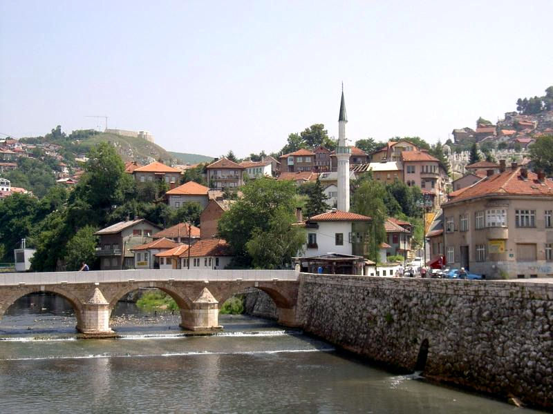 A look on the Babića bašća local community, with Šeher-Ćehajin's bridge in the front. Restaurant Inat kuća (Spite house) is also visible beneath the minaret which in other hand is part of Vekli-Harač mosque (know as Pilgrim mosque). The Cemetery Alifakovac can also be seen right in the background. The fortress on the hill left, in background, is Bijela tabija.